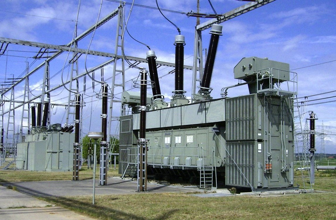 Two high voltage utility transformers at a substation in Germany